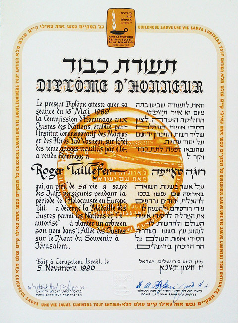 Righteous Diploma of Roger Taillefer